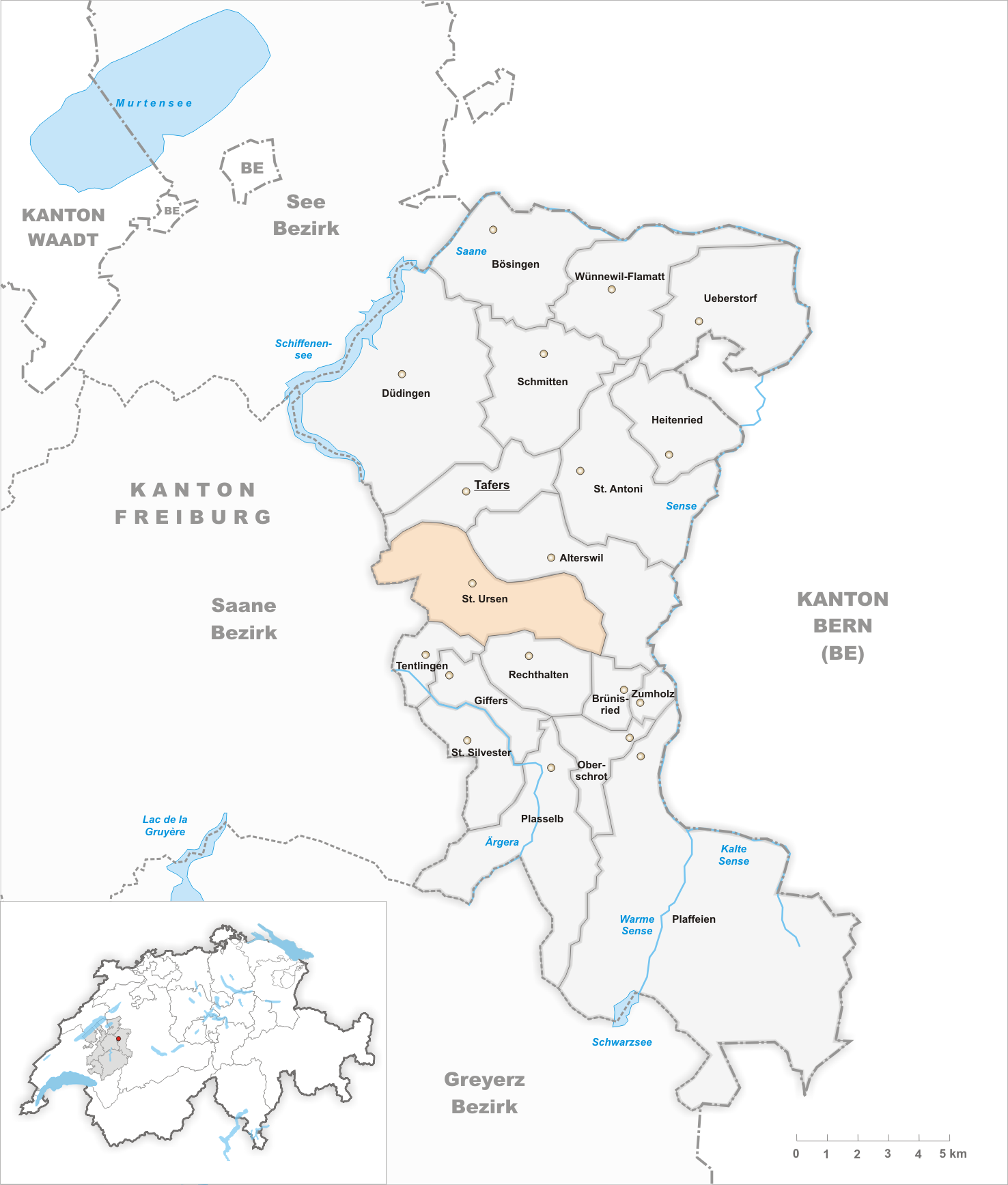 Municipality St. Ursen